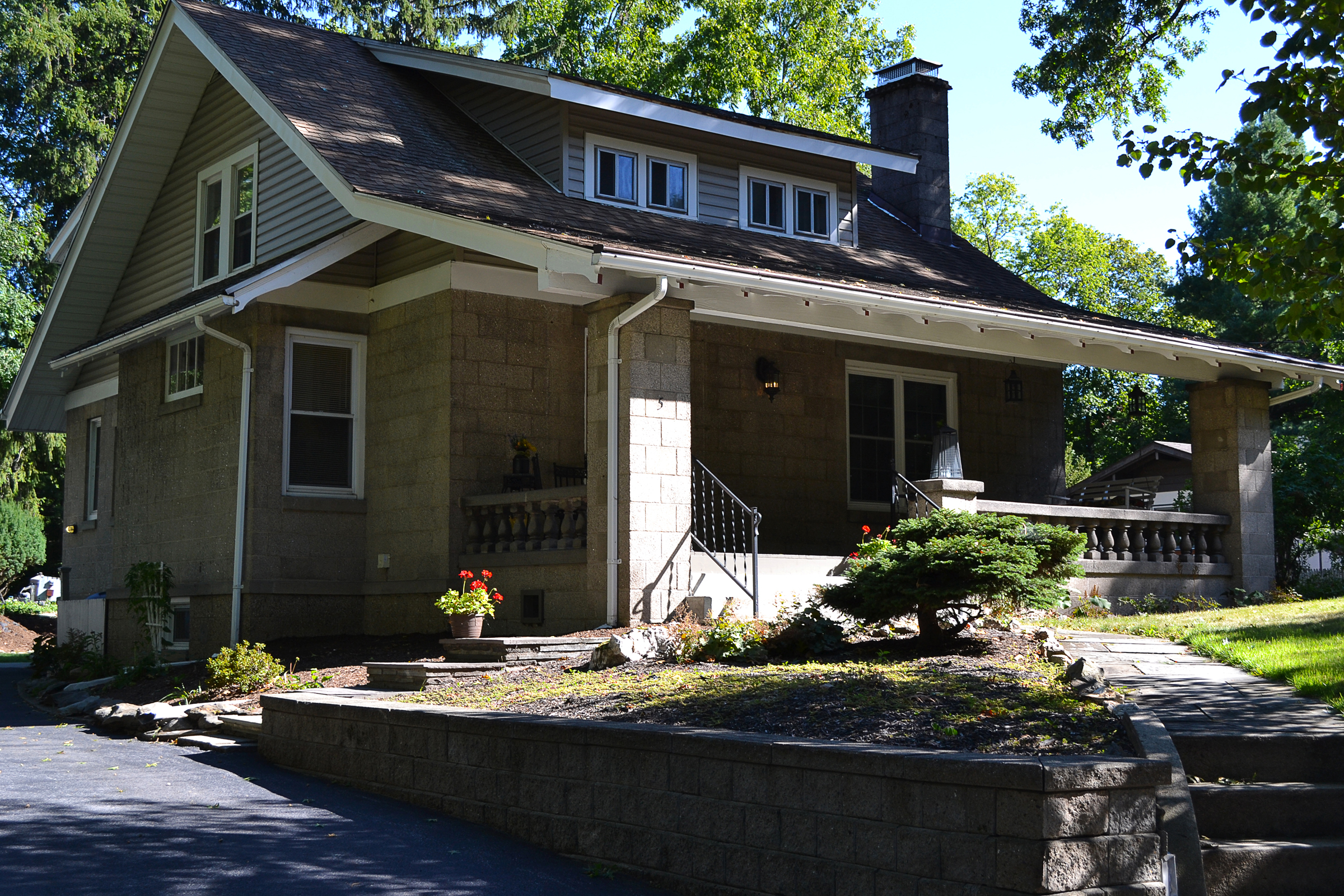 Grey Hook Grey Hook, 5 Ferris Lane, Poughkeepsie, NY. Western (front) and Northern facades